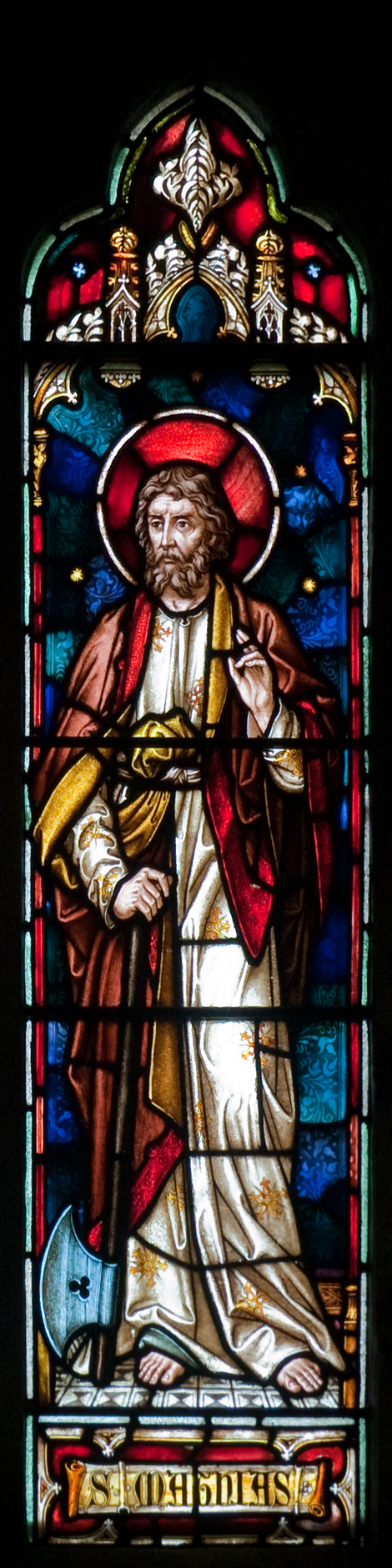 Right part of first stained glass window in the east aisle (right from the nave if coming from the main entrance in the south), depicting the apostles Simon and Matthias. Augustus Pugin (1812–1852) Alternative names Augustus Welby Northmore Pugin; A. W. N. PuginDescriptionBritish architectDate of birth/death 1 March 1812 14 September 1852 Location of birth/death Bloomsbury RamsgateWork location United Kingdom Authority control : Q313288 VIAF: 17247761 ISNI: 0000 0000 8096 1987 ULAN: 500008414 LCCN: n50027100 NLA: 35435757 WorldCat creator QS:P170,Q313288